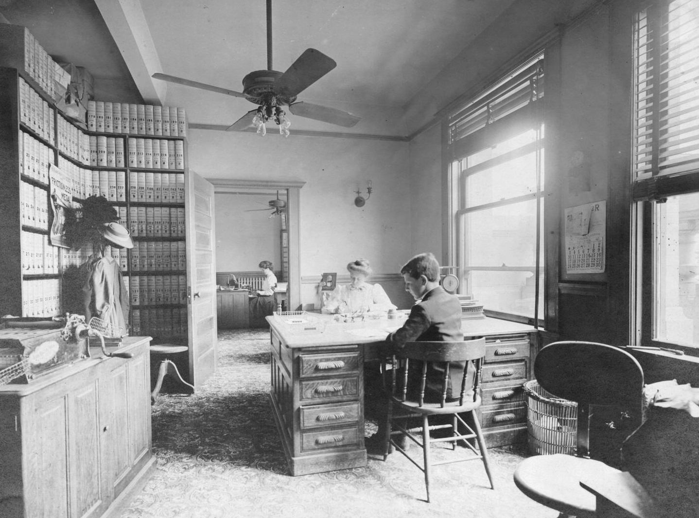 Southern Pine Lumber Company billing clerk's office showing Robert Waite and Miss Dee Eck in the background. This is the company's main office in Texarkana, Arkansas.